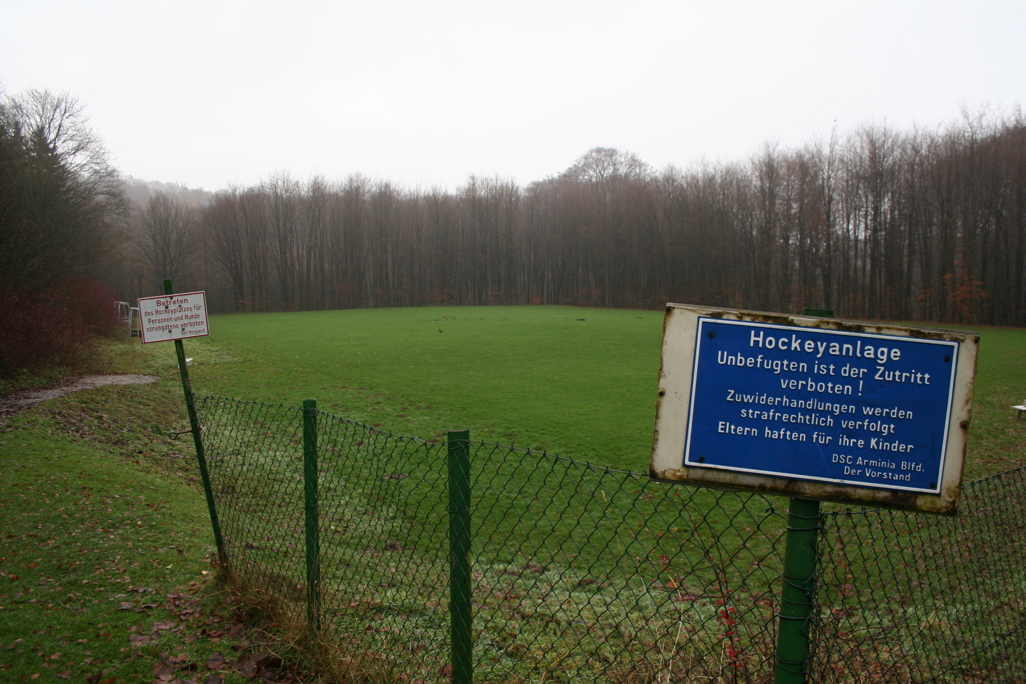 Hockeyfield of the DSC Arminia Bielefeld (near by the Tierpark Olderdissen)